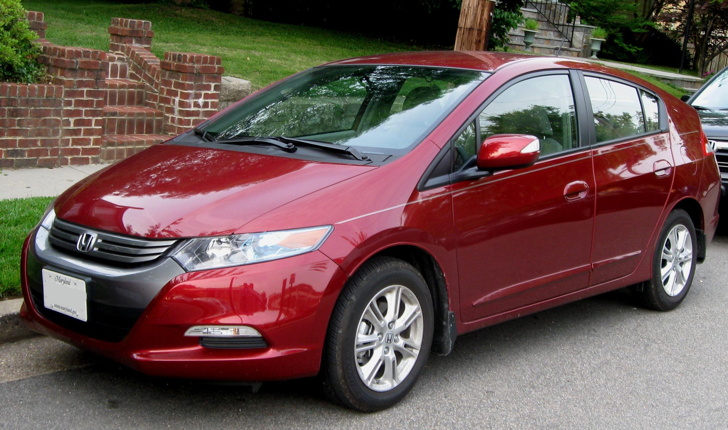 2010 Honda Insight photographed in Washington, D.C., USA.